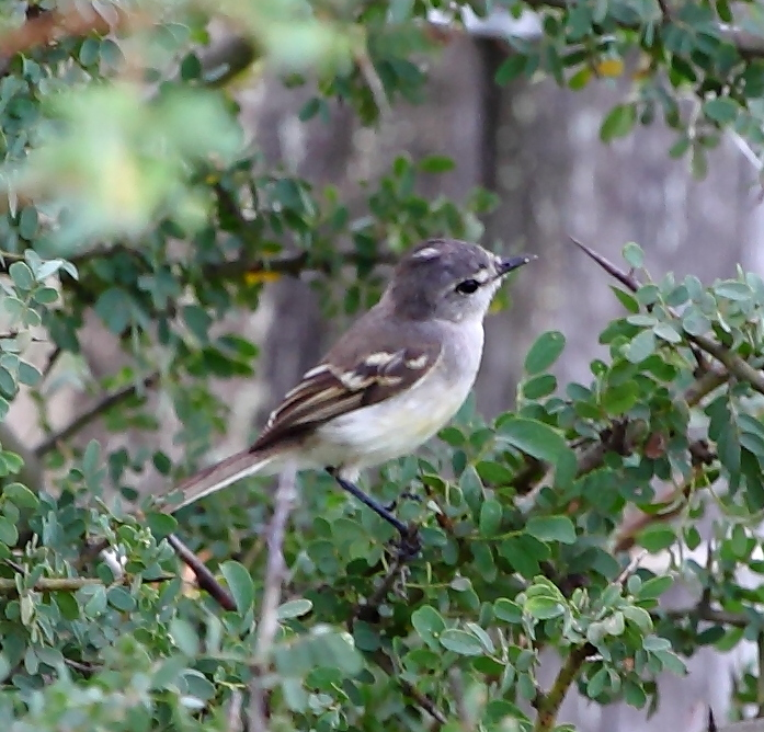 White-bellied tyrannulet at Capivara - Santa Fe - Argentina